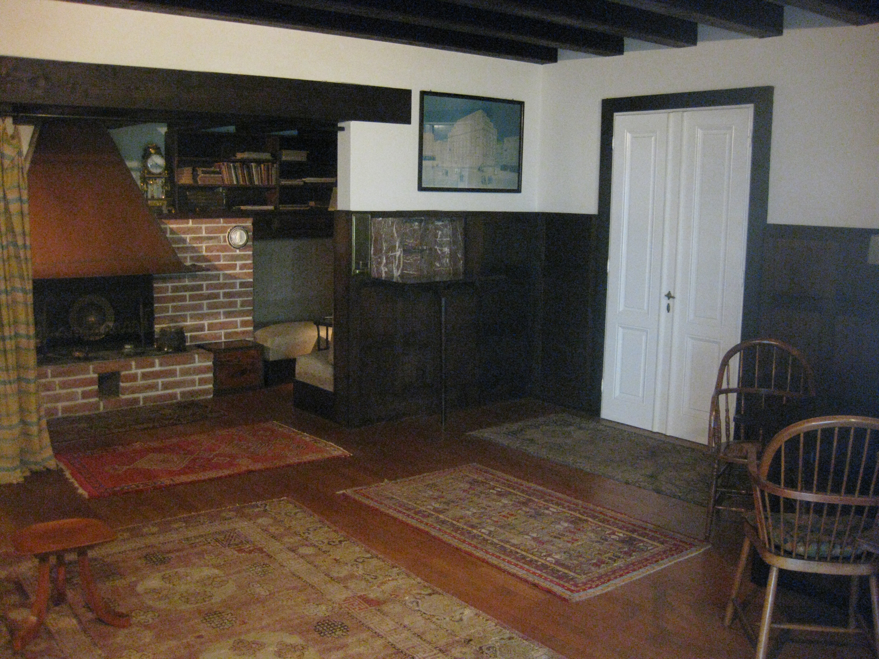 Apartment of Adolf Loos, Reconstruction in Vienna